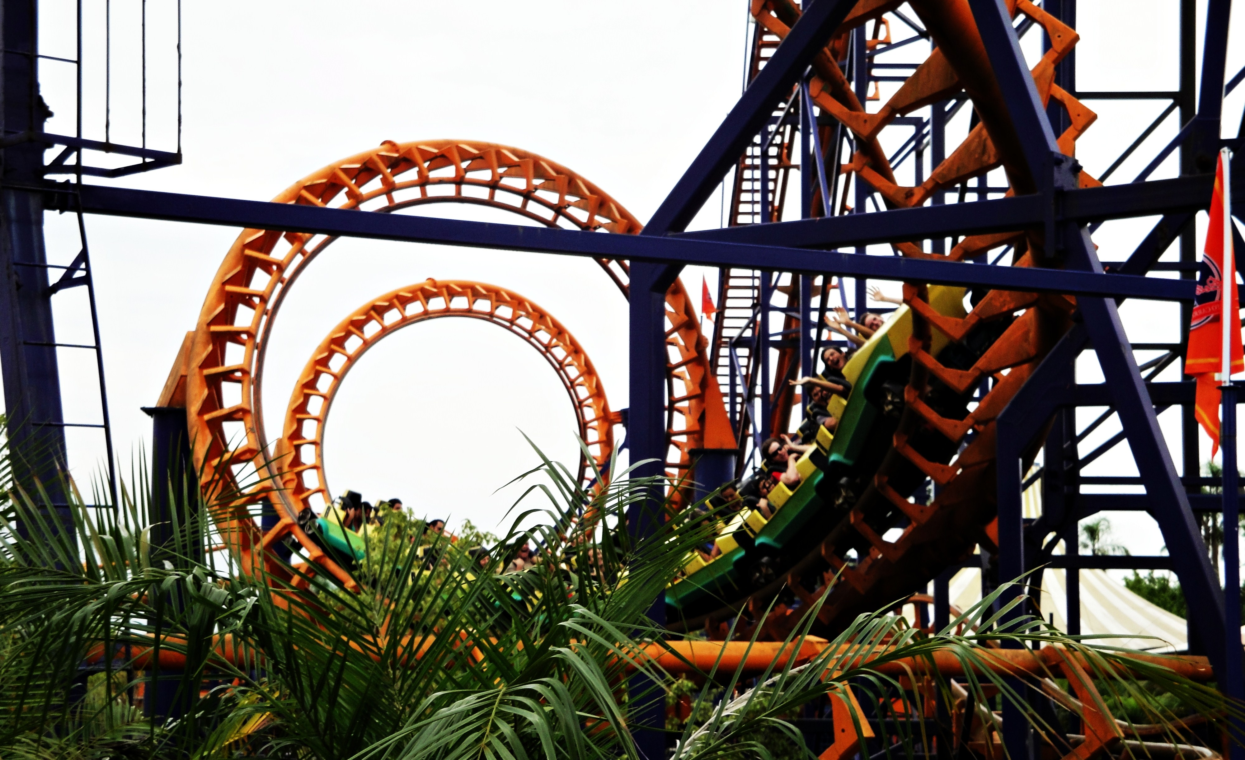 The inversions of Star Mountain